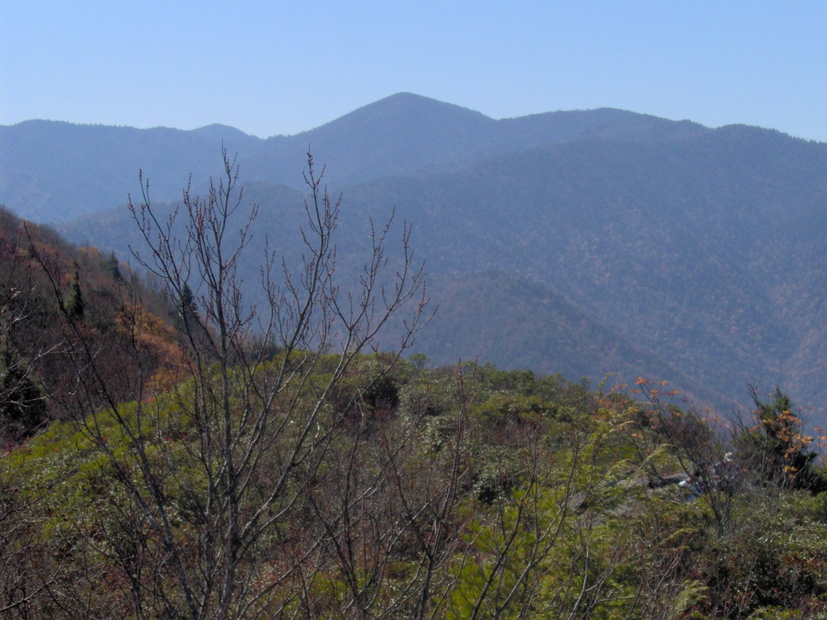 The Guyot massif in the Great Smoky Mountains, looking west from Mt. Cammerer. Mt. Guyot is the high peak at the center, flanked by Old Black on the right and Mount Chapman on the left. The elevation of Mt. Cammerer is 4,928 feet/1,502 meters.